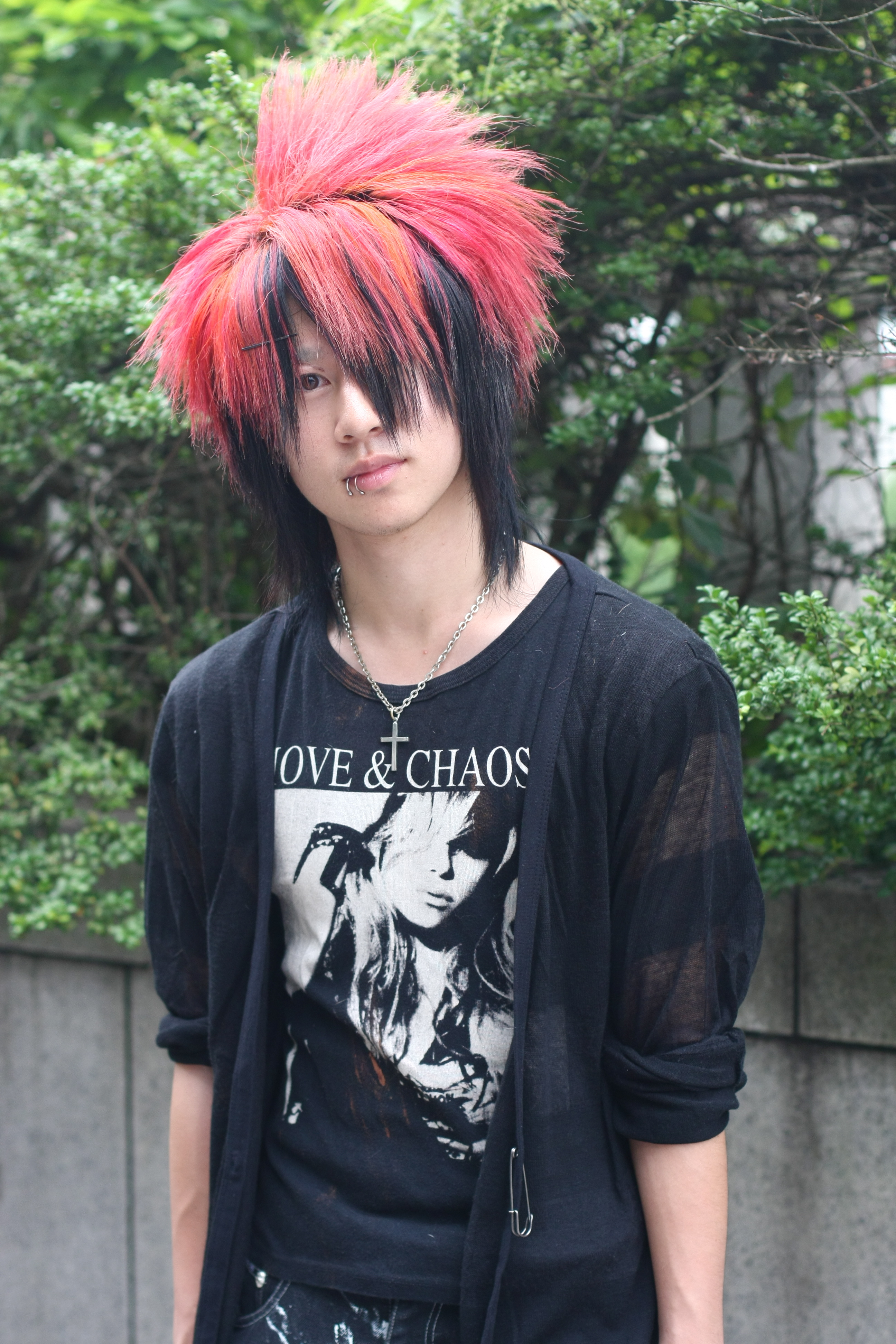 This dude was hanging around Harajuku JR station. If you think this is a strange get-up: his friends had various combinations of spiked collars, maid outfits, and insane robot costumes. (I'm kicking myself for not taking a photo of the robot dude.)